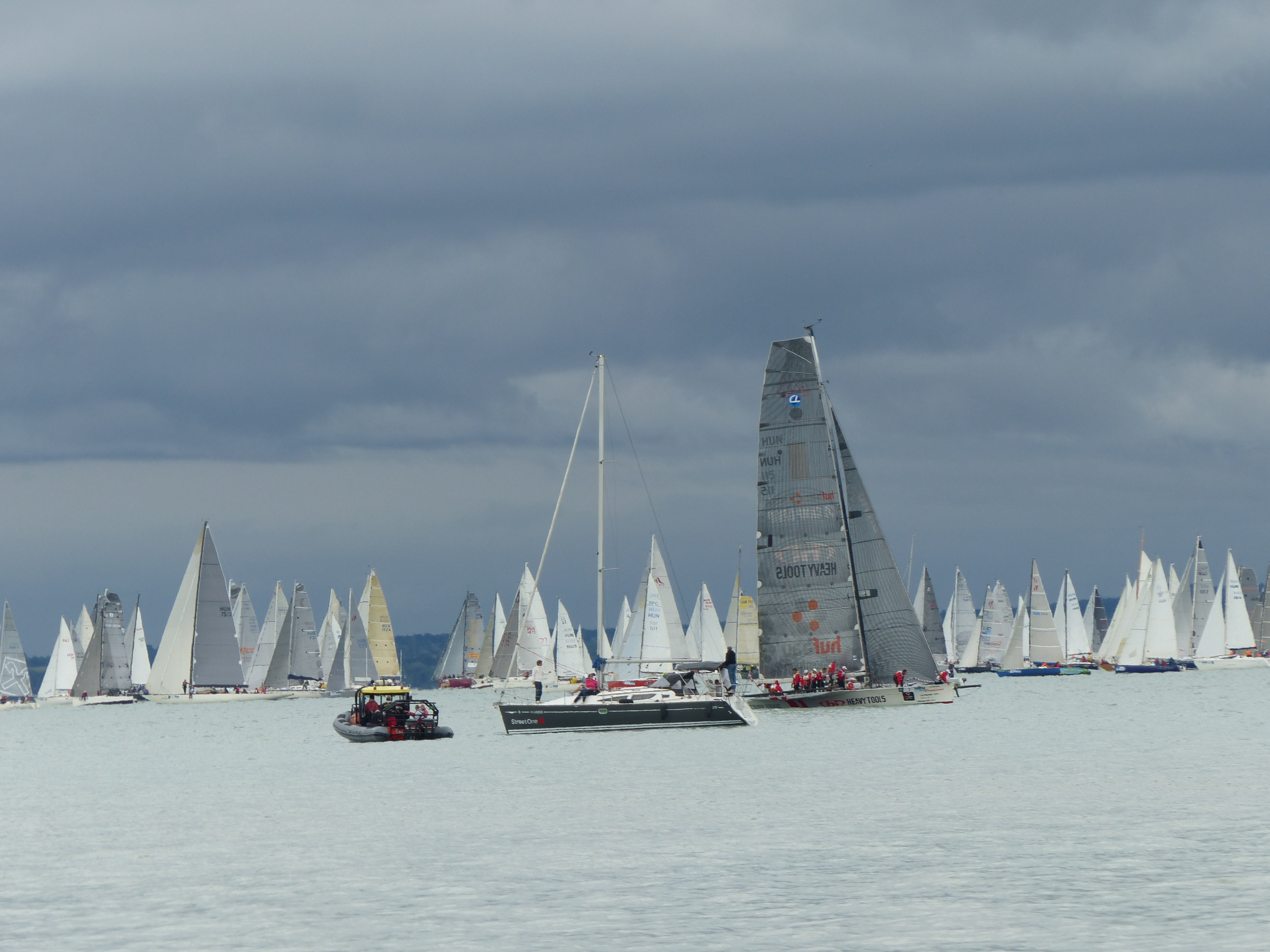 Kékszalag regatta, start. Balatonfüred, Hungary. Winner: Litkey Farkas. Taken on the 14th of July, 2016. 9.01 o'clock.